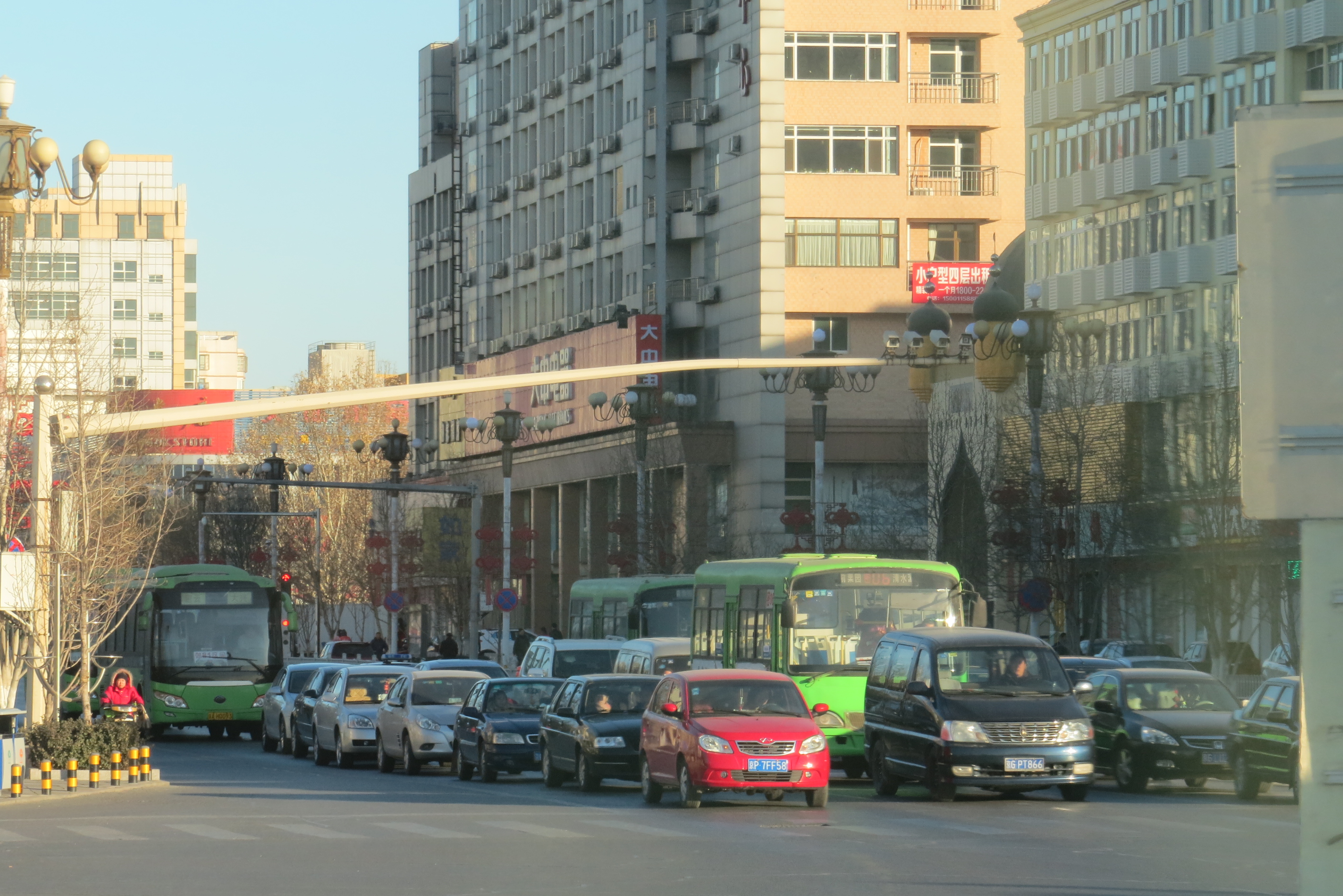 Gulou Subdistrict in Central Miyun. Quite busy...